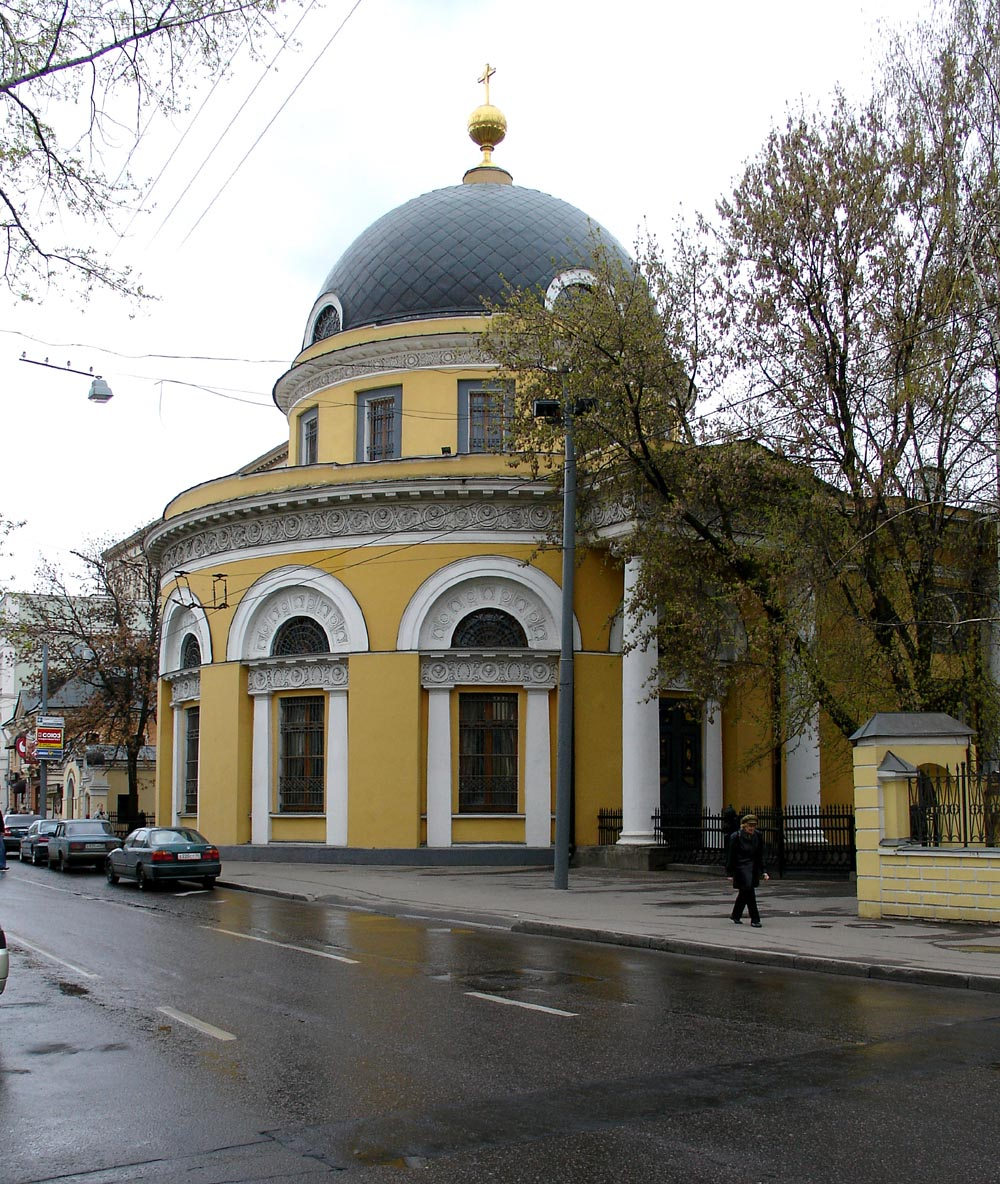 Church of Theotokos "Joy in Sorrow", Moscow, Russia by Joseph Bove